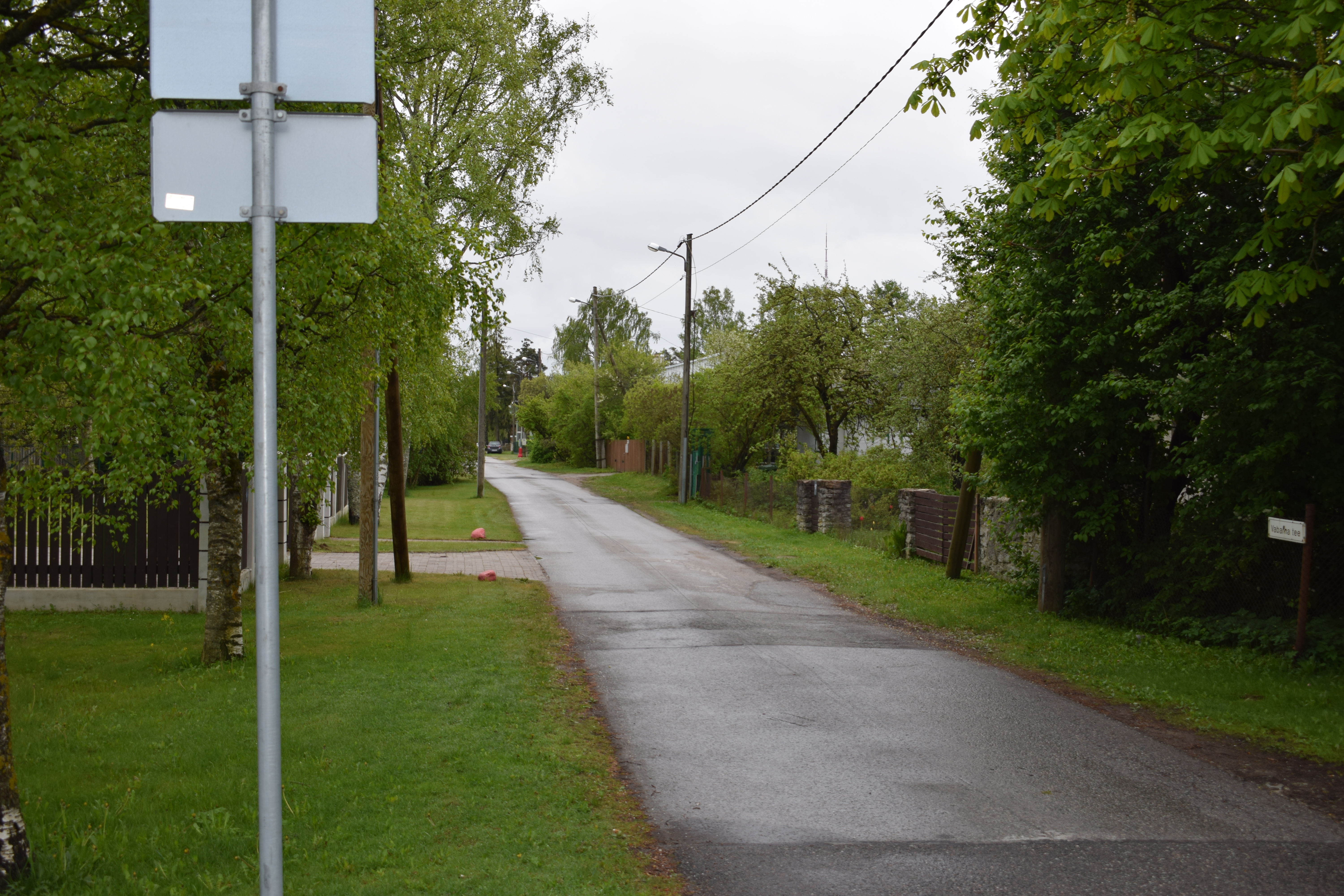 Vabarna street